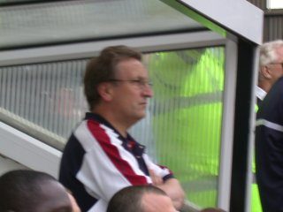 Photo of Neil Warnock taken at Meadow Lane in 2003. Taken with permission from